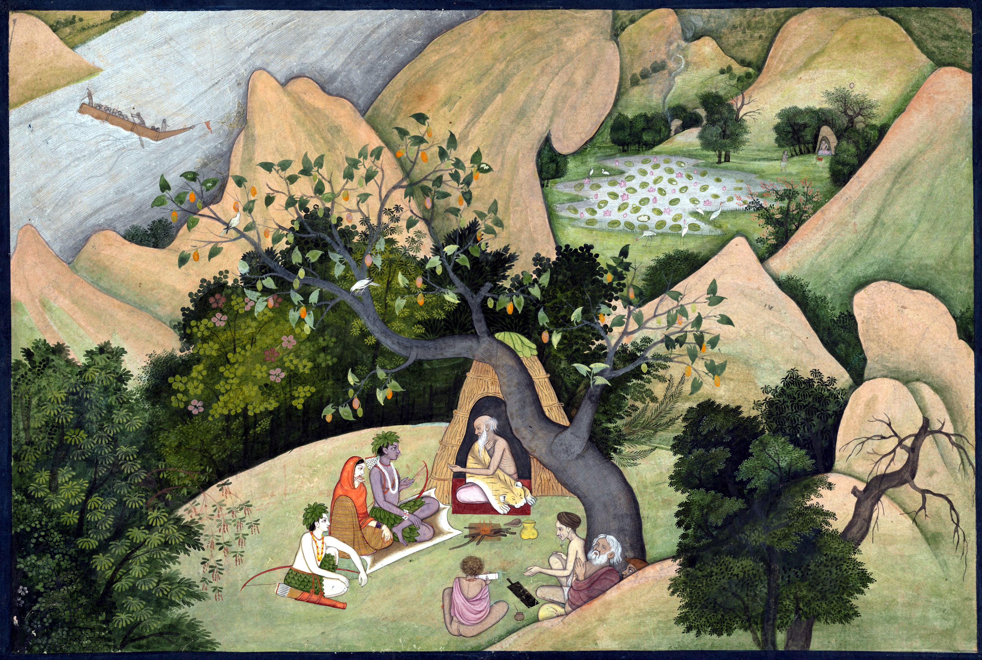 The Ramayana manuscript from which this painting comes is one of the great productions of the Kangra workshop and also one of the largest in page sizes. Its compositions are distinguished by their variety and audacity. This one depicts the wilderness landscape into which Rama was exiled. The fantastic, tortured natural forms seem to mirror the peril and desolation felt by the god in his wanderings: a vertiginous fording of the Ganges at the upper left, the lonely valley of the hermitage at the top right, and the central hilltop scene set before an ancient windswept tree. Here Rama and his companions are seen consulting the sage Bharadvaja, who tells Rama that his fourteen-year exile will soon end and he will be reunited with his family.